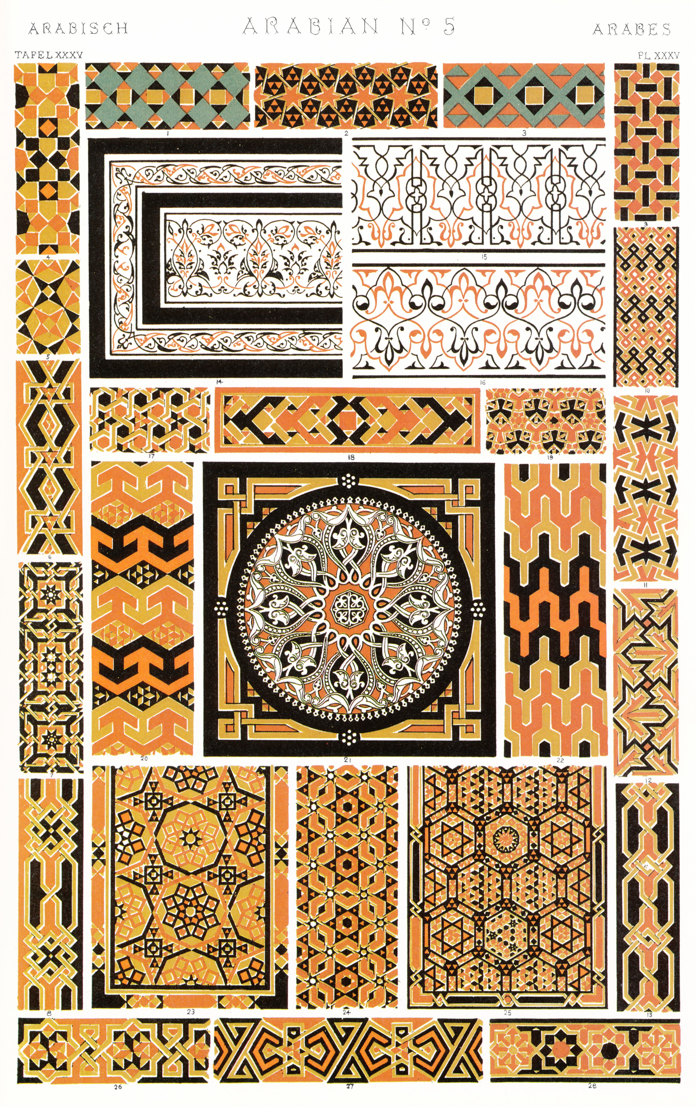 Plate XXXV (35): “Arabian Nº 5” from Owen Jones, The Grammar of Ornament, folio edition, London: Bernard Quaritch 1868, scanned from a newer reprint of the book. Hint: That this digital image has been scanned from a reprint of Jones’ book, is not a copyright problem, because the original book is in public domain (Jones died in 1874), and so both the reproduction in the reprint and this digital image are in public domain, too. But it is some problem for the image quality: the offset reprint has rasterized the original chromolithographic print, and may have introduced colour changes, too. So a high-quality (!) scan from a good copy of the original 1868 publication would be much better, and very welcome …